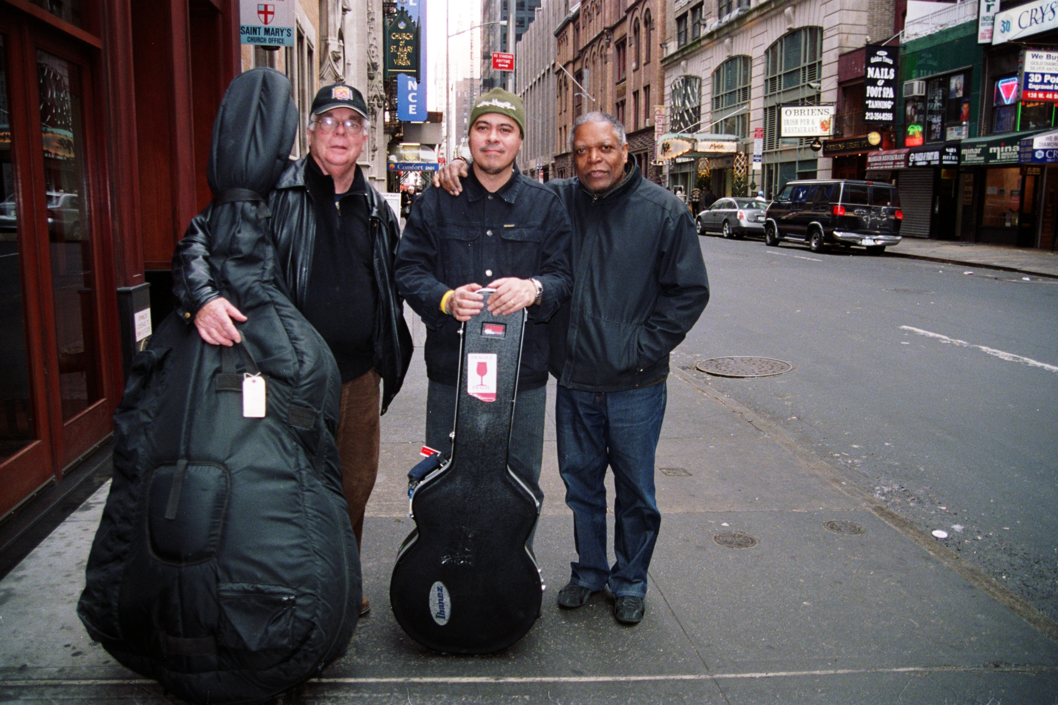 This photo was taken in New York when Johnny recorded "Johnny Alegre 3" for MCA Music. L-R: bassist Ron McClure, Johnny Alegre, drummer Billy Hart